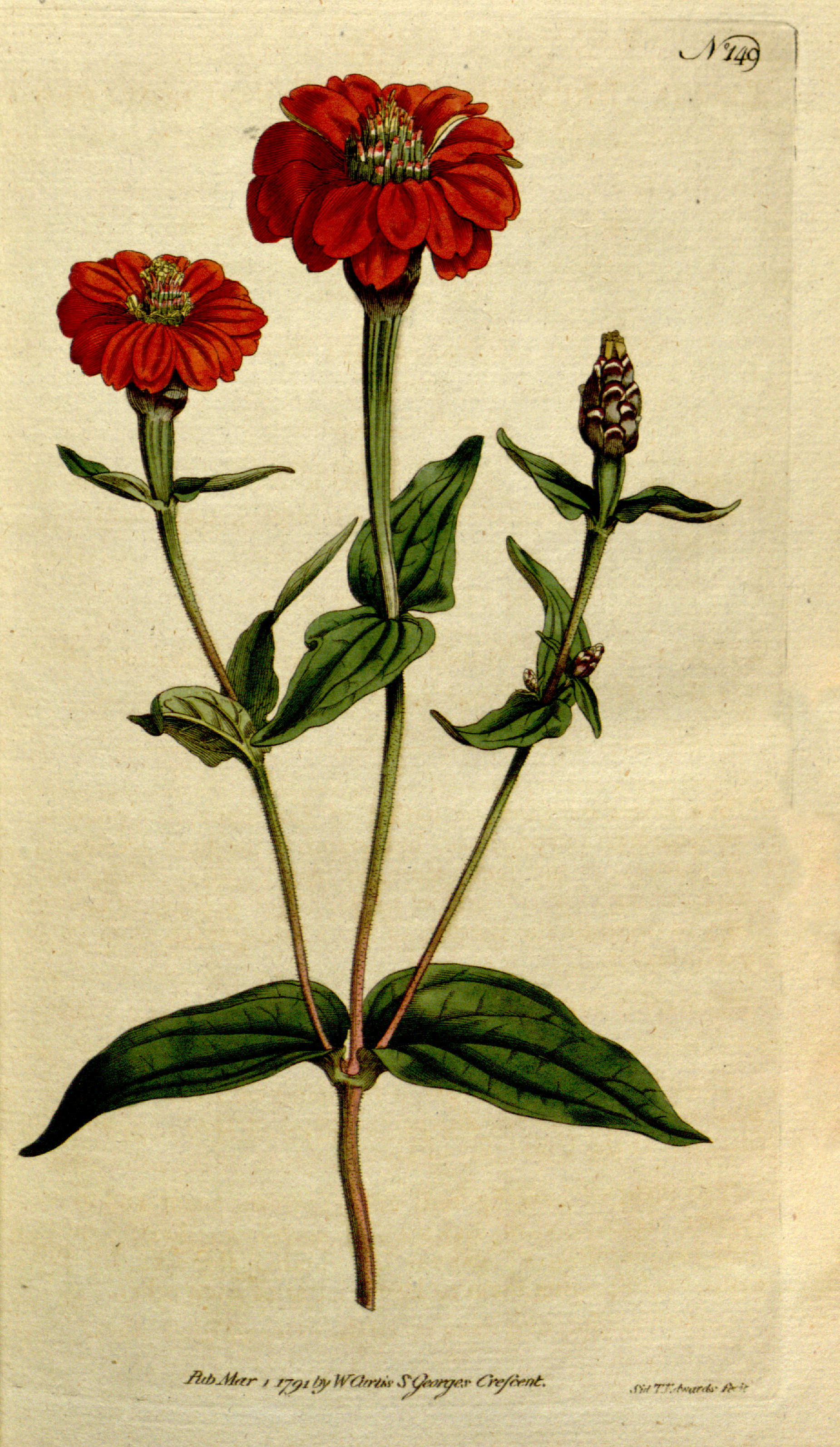 This is a plate from The Botanical Magazine, Volume 5.